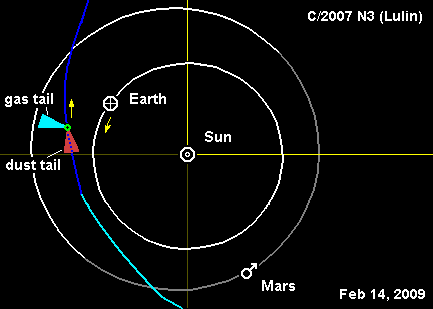 This diagram explains how the comets C/2007 N3 (Lulin) shows an "antitail." Ion tail and dust tail can theorically be separated. The ion tail (cyan in the image) is oriented according to solar wind (and points more or less directly away from the Sun). The dust tail (red), formed by dust particles ejected by the comet, more or less follows the comet's orbit.[1] Tail dimensions aren't in scale.